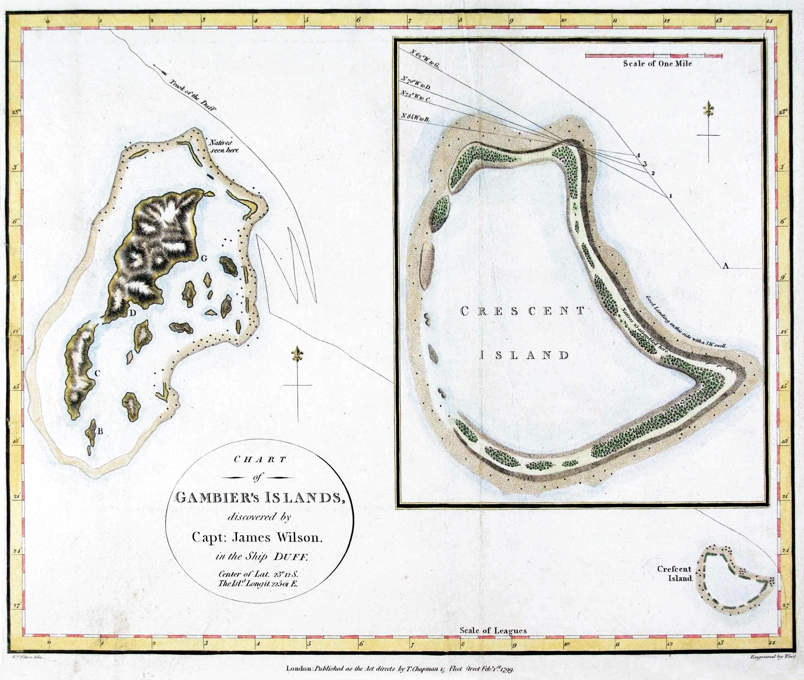 maps of the Gambier Islands and of Temoe Atoll (formerly Crescent Island Published in: James Wilson: A Missionary Voyage to the southern Pacific Ocean . . . T. Chapman London, 1799, after page 112